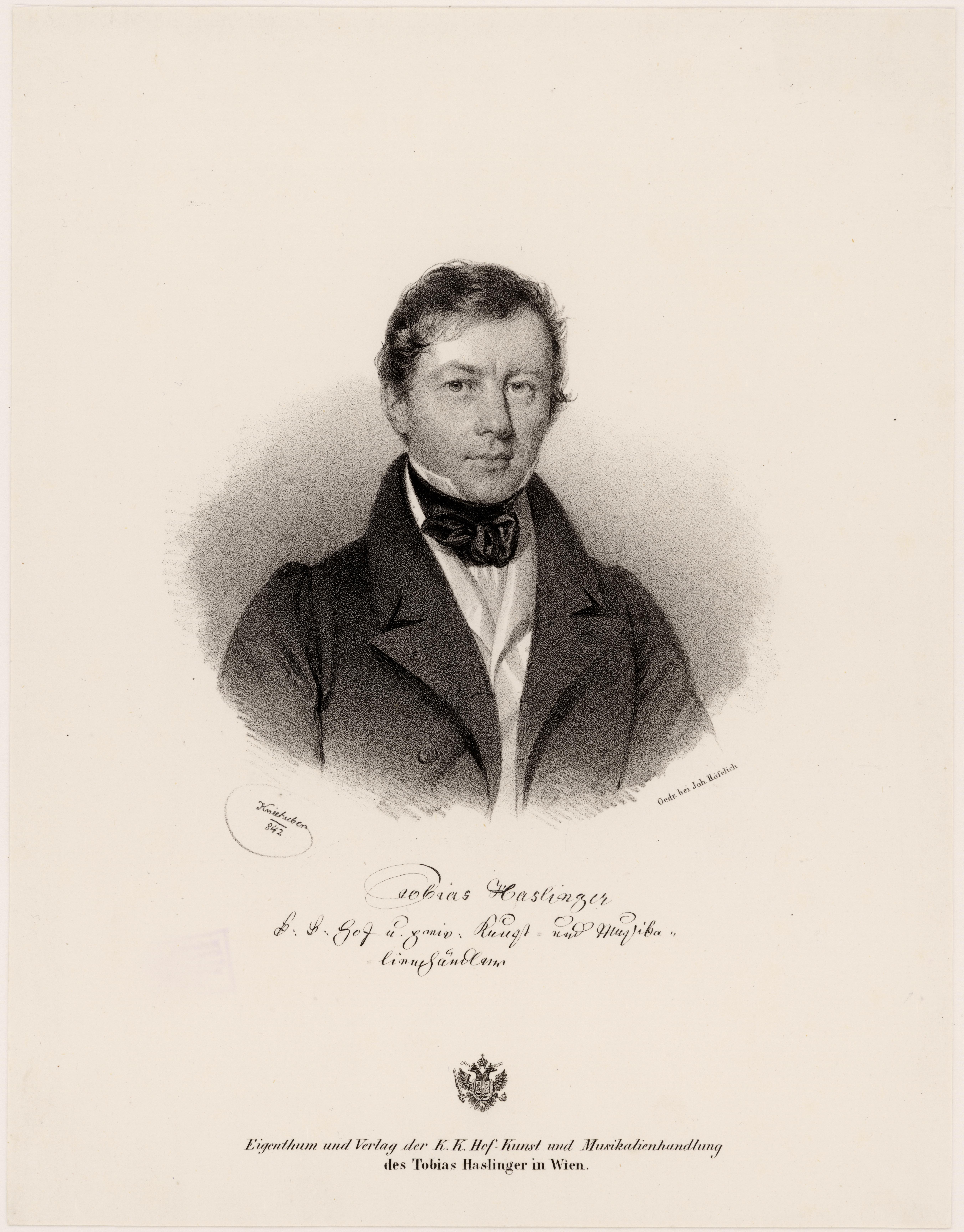 Depicted person: Tobias Haslinger